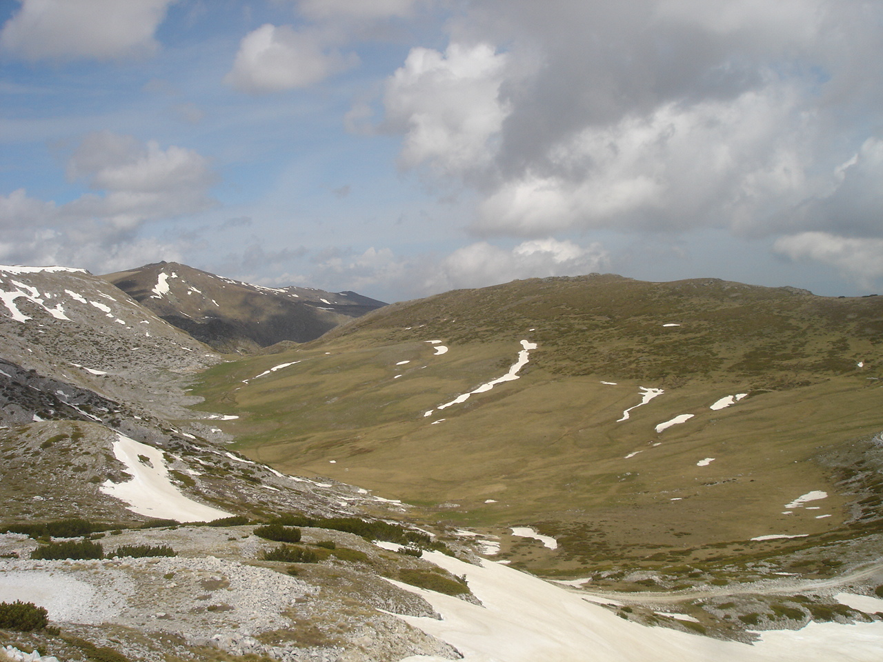 Vraca highland on Jakupica (Mokra) mountain, Macedonia